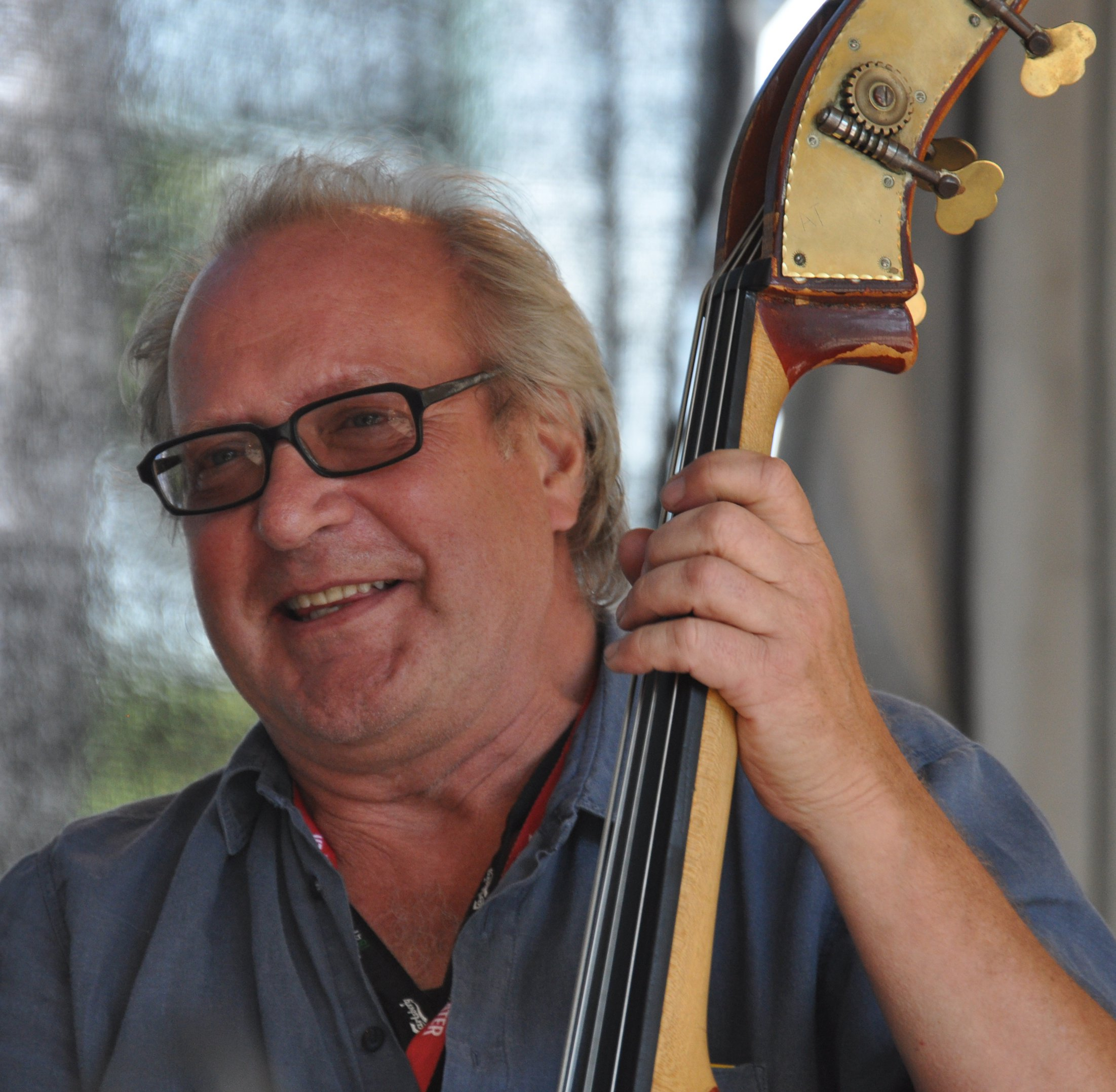 Finnish bassist Häkä Virtanen at Pori Jazz, 2012.